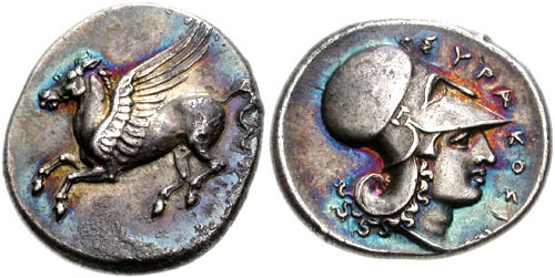 Syracuse. Timoleon and the Third Democracy. 344-317 BC. AR Stater